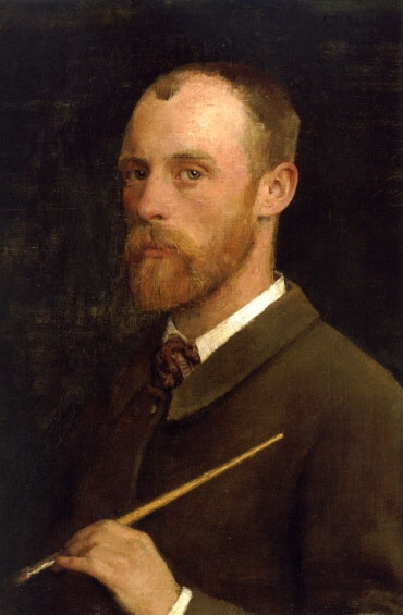 Selfportrait